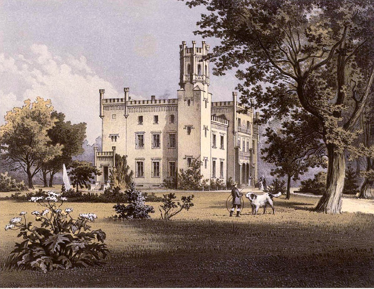 Catle in Narok by Skorogoszcz, Poland